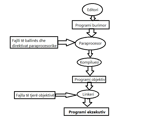 Diagram forme :2